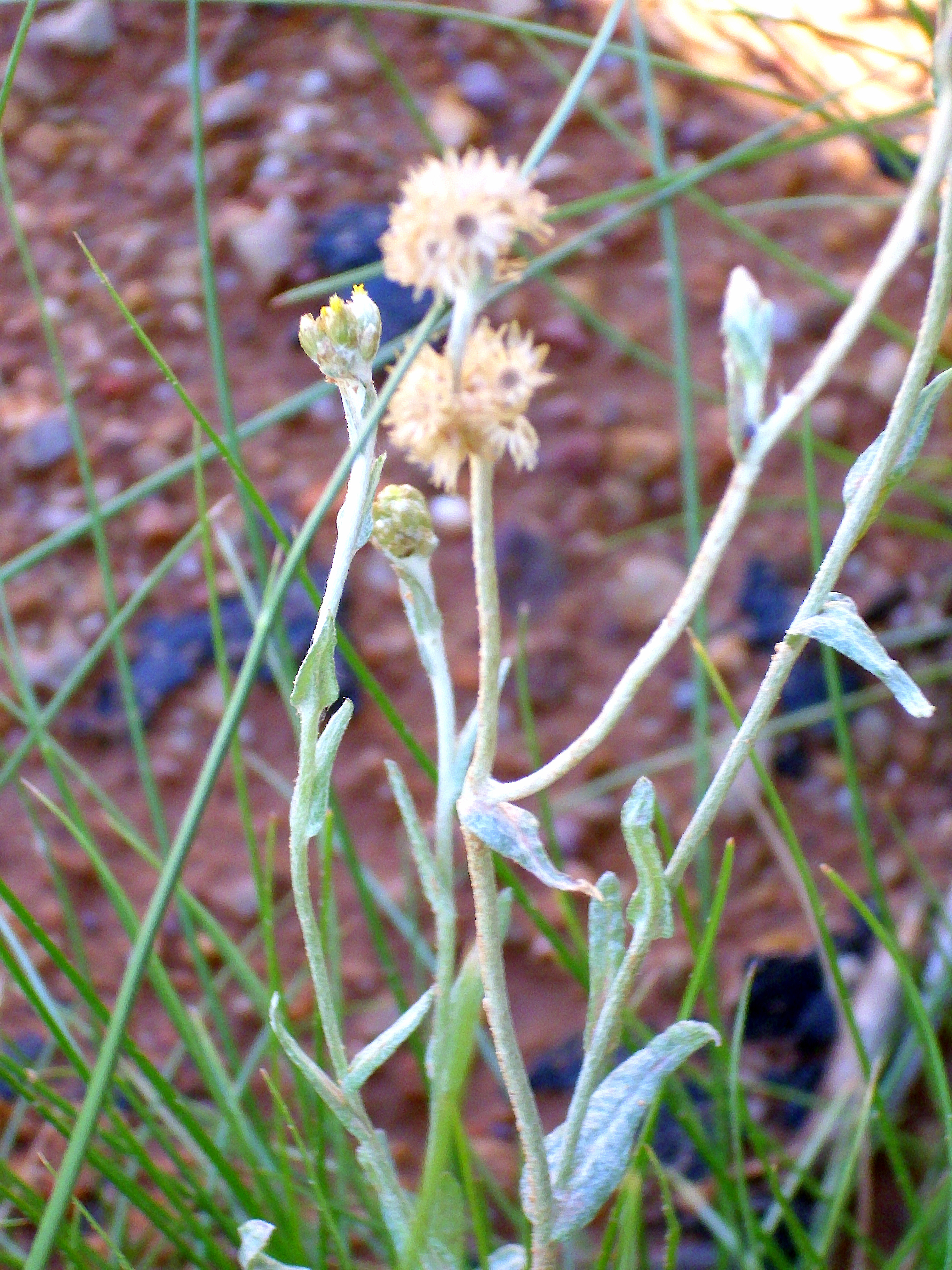 Gnaphalium luteo-album stem and leaves, Campo de Calatrava, Spain